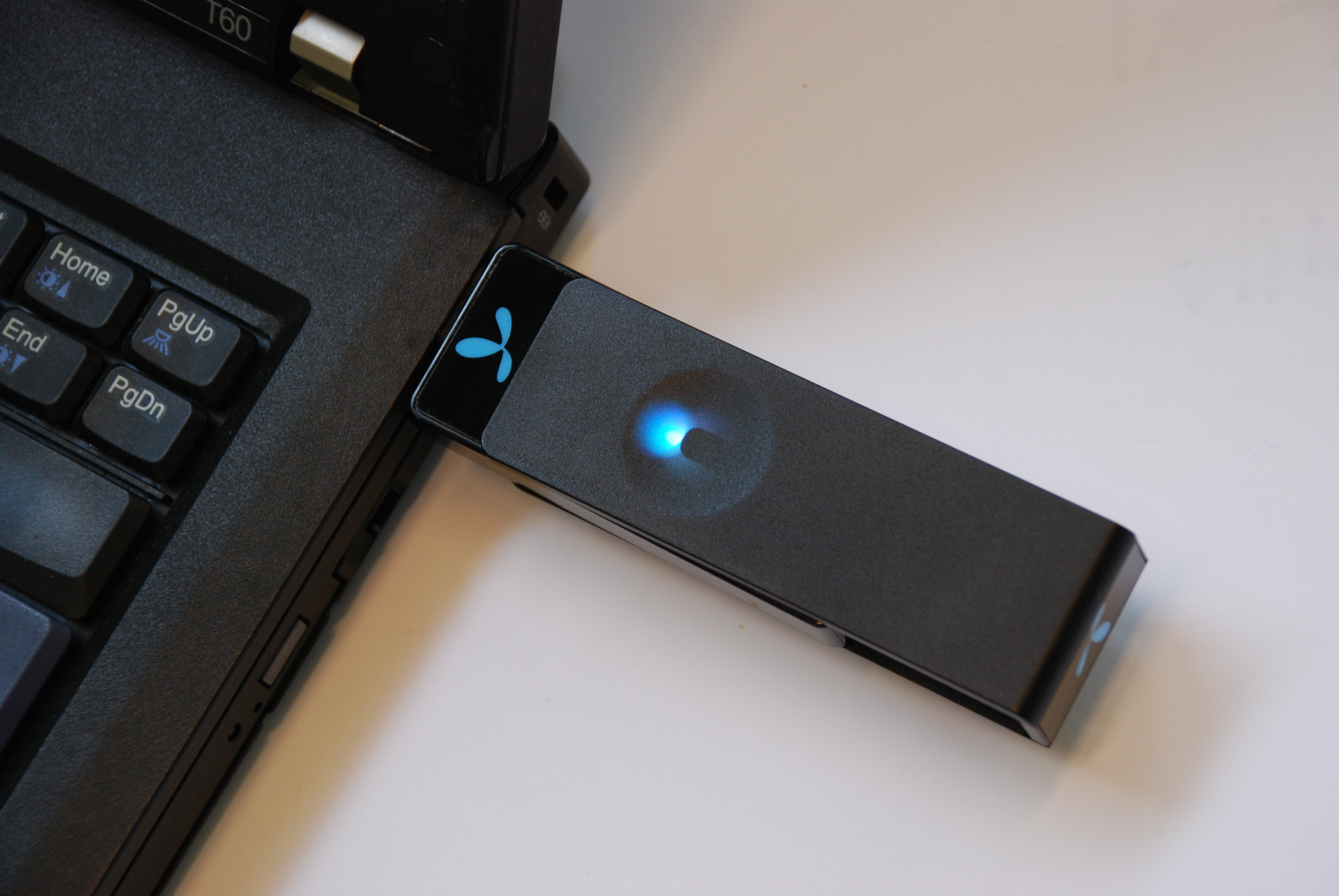 USB modem for PC, 2008. Adaptible for 3G mobile data (UMTS, HSxPA). Telenor version, Norway.